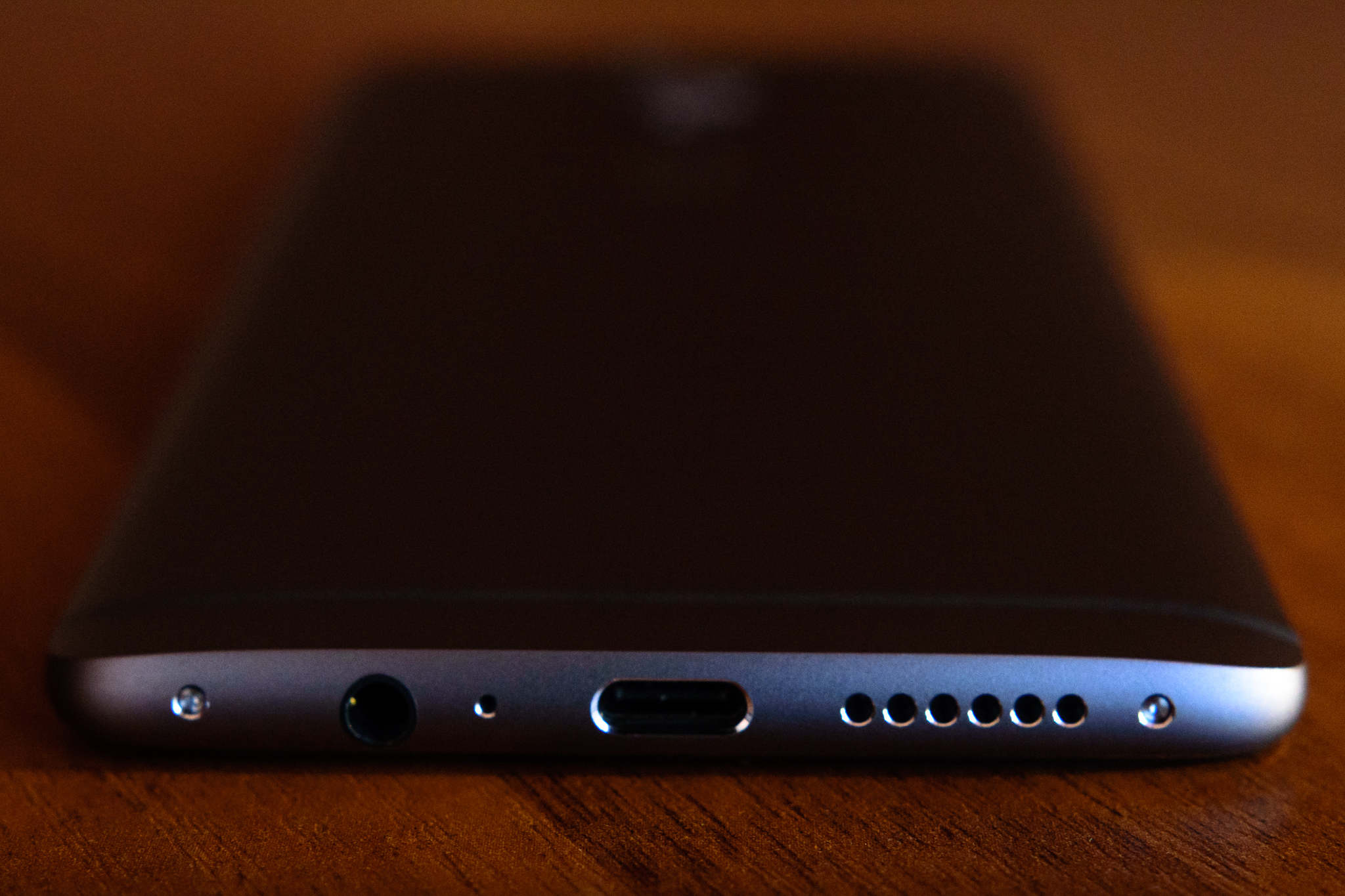 Bottom of OnePlus 3T. There are eg. 3.5 mm audio jack & USB-C plug.